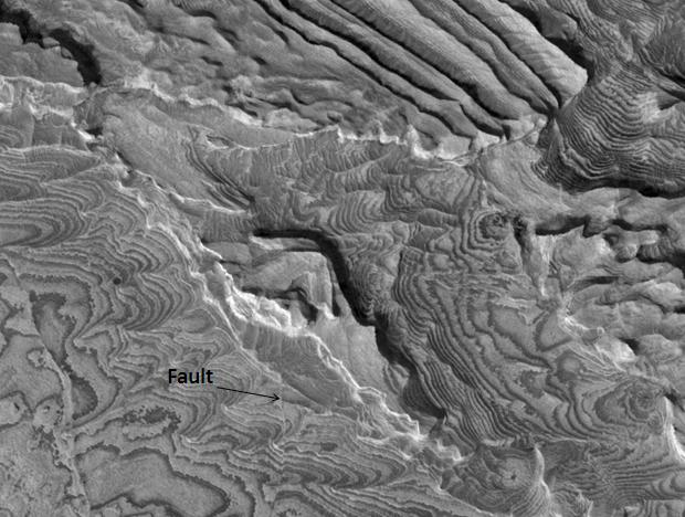 Becquerel Crater layers, as seen by hirise. Location is 21.3 degrees north latitude and 8 degrees west longitude. Image was taken by the Mars Reconnaissance Orbiter's HiRISE. The HiRISE camera was built by Ball Aerospace and Technology orporation and is operated by the University of Arizona. Image courtesy NASA/JPL/University of Arizona.